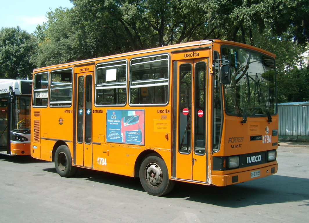 Iveco 316.8.13 Portesi bus in Genoa, Italy. Year built 1987.